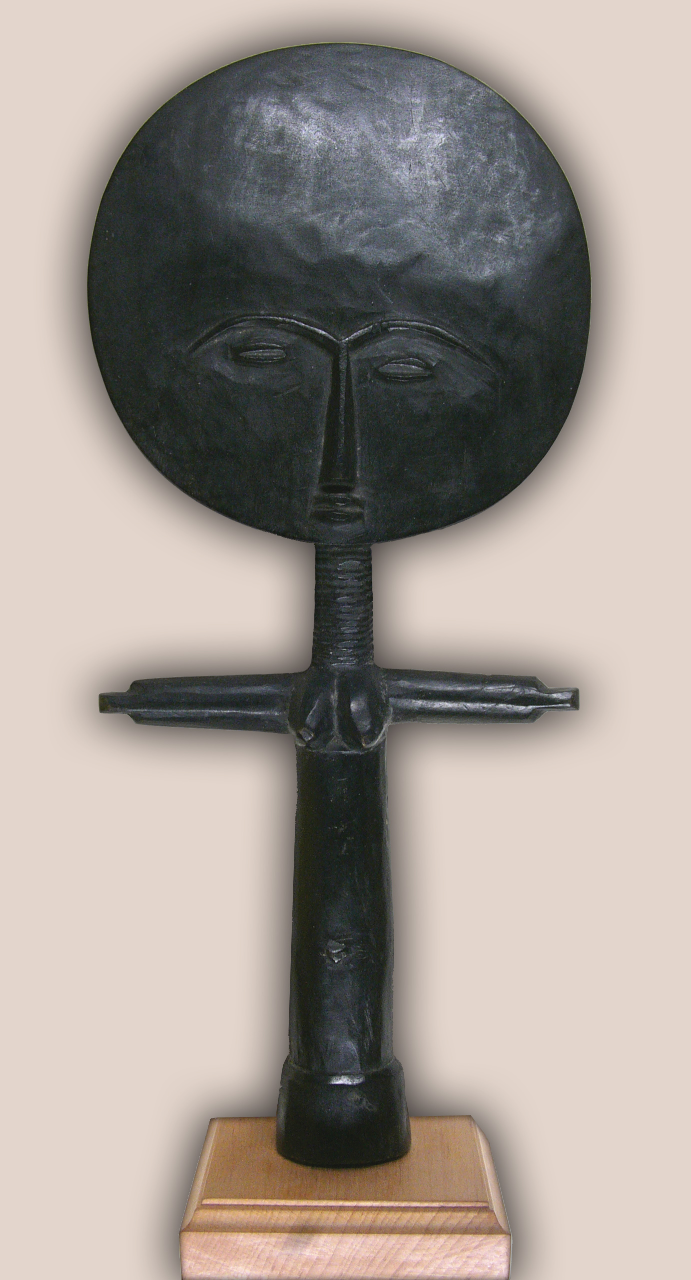 Akuaba, carving from Ghana, Africa